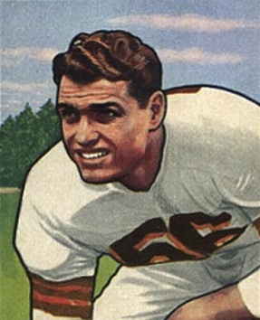 Dante Lavelli, American football end, on a 1950 Bowman football card